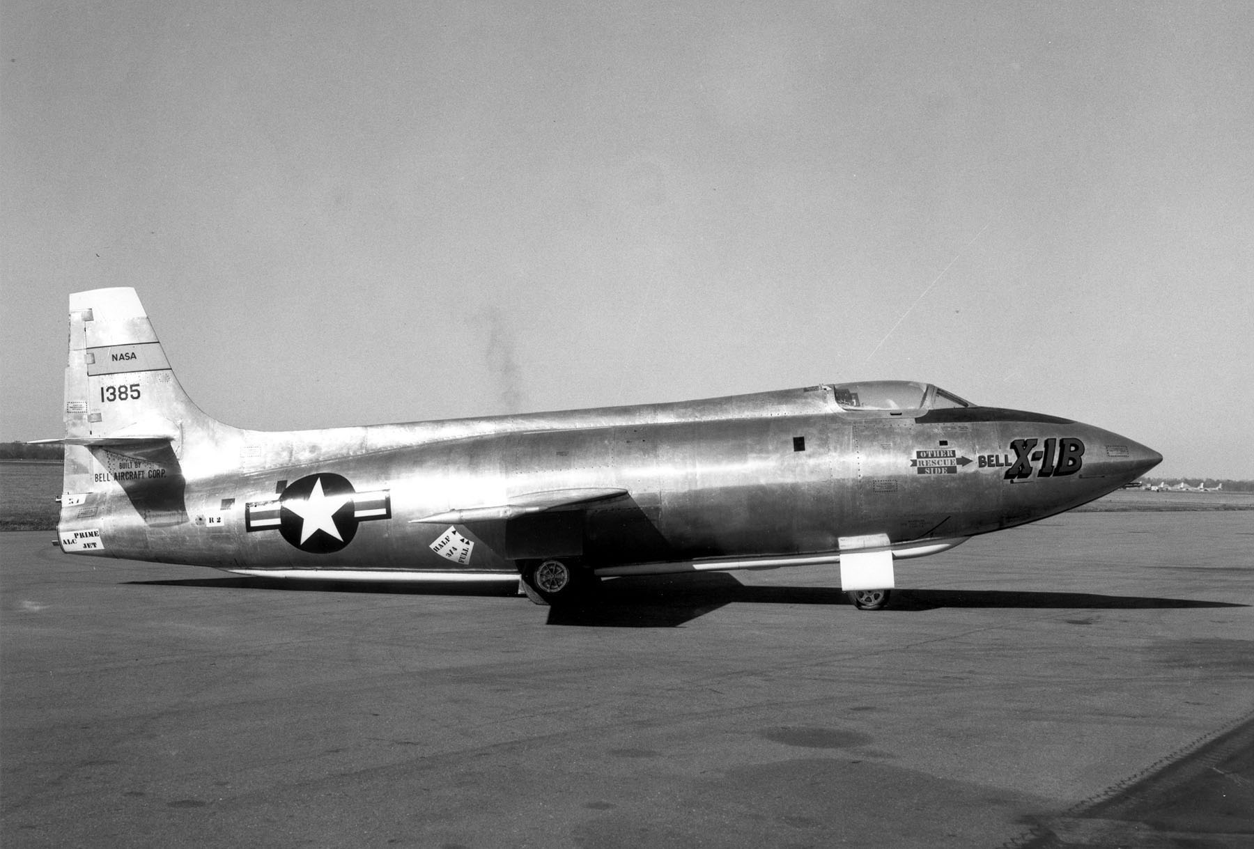 Bell X-1B Photo id: 050324-F-1234P-032